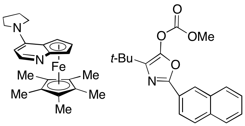 Fu PPY* ferrocene derivative catalyst and acylating agent for the kinetic resolution of amines